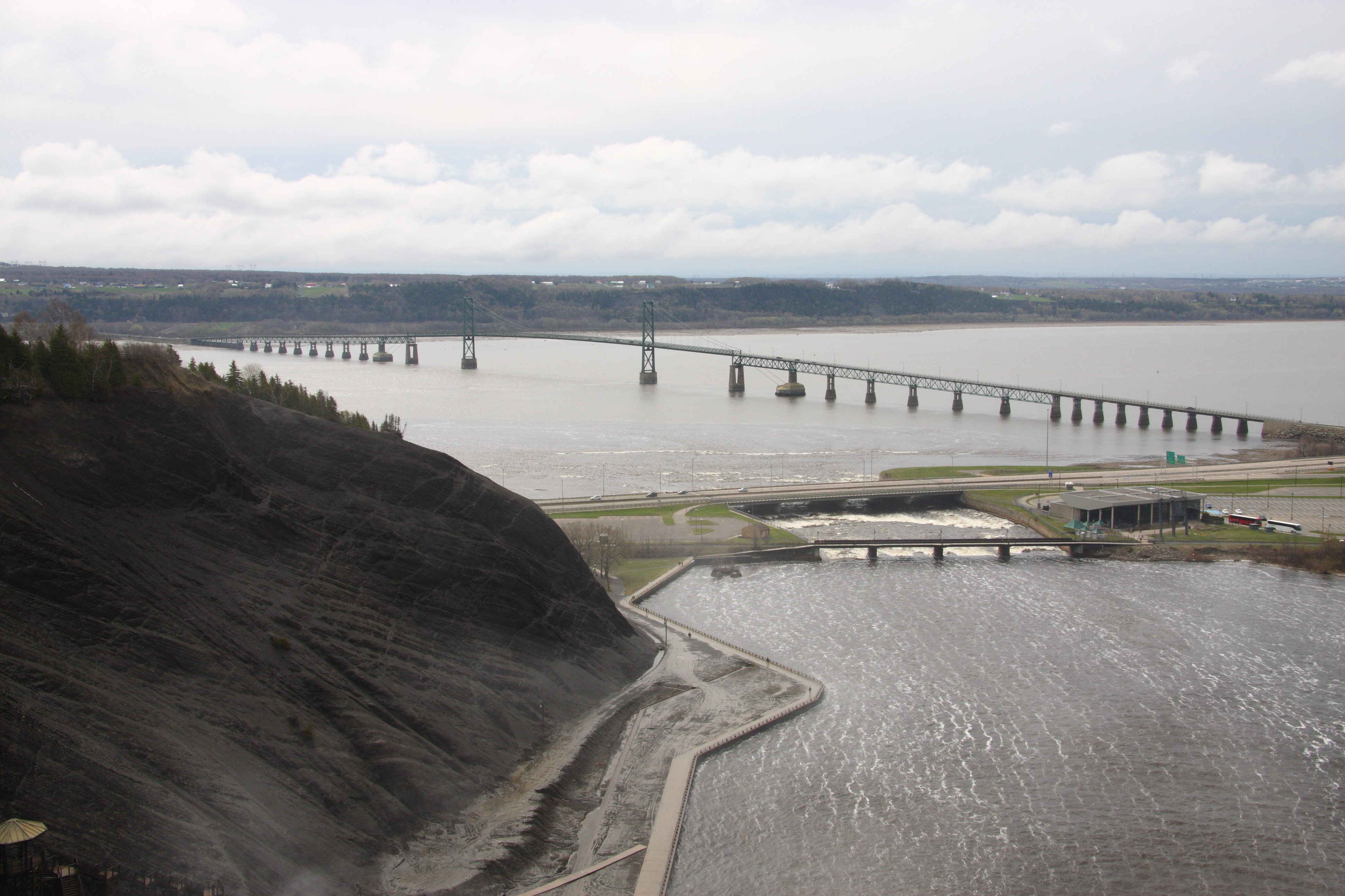 The Île d'Orléans Bridge seen from the top of Montmorency Falls